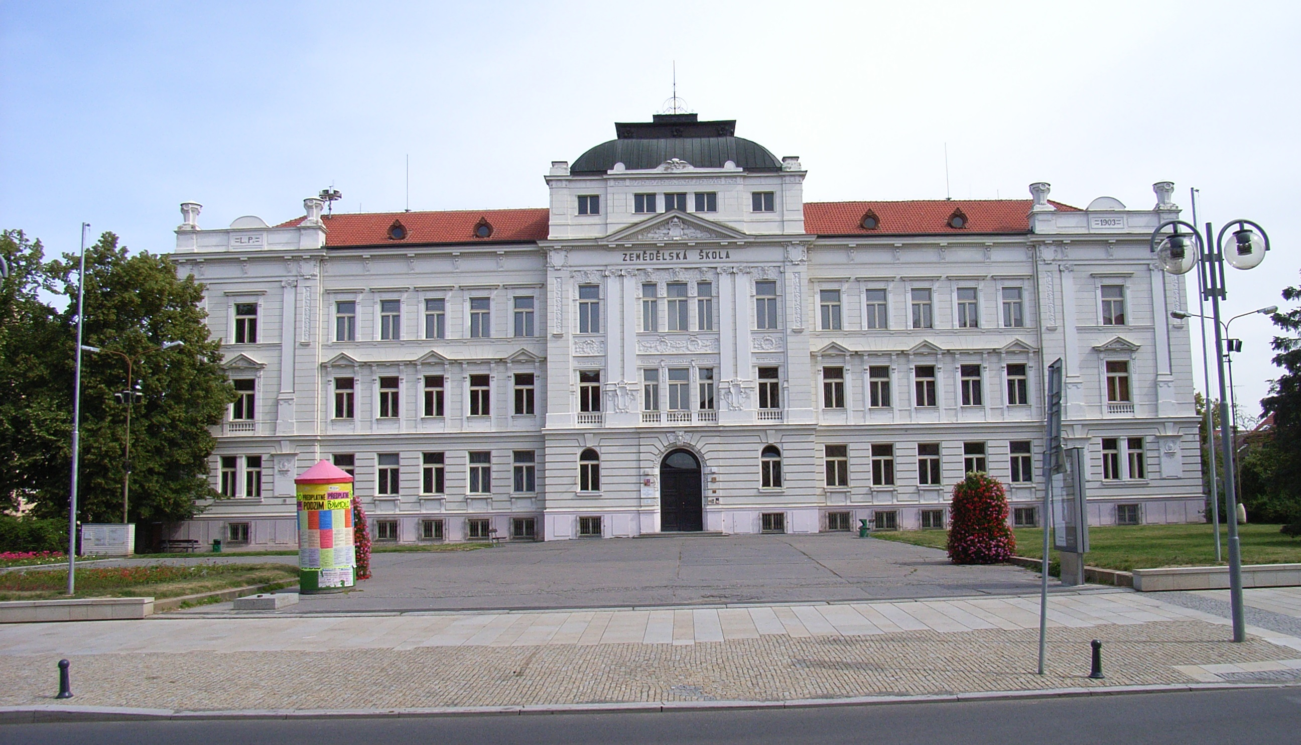 School of Agriculture (built 1903) in Tábor, Czech Republic.